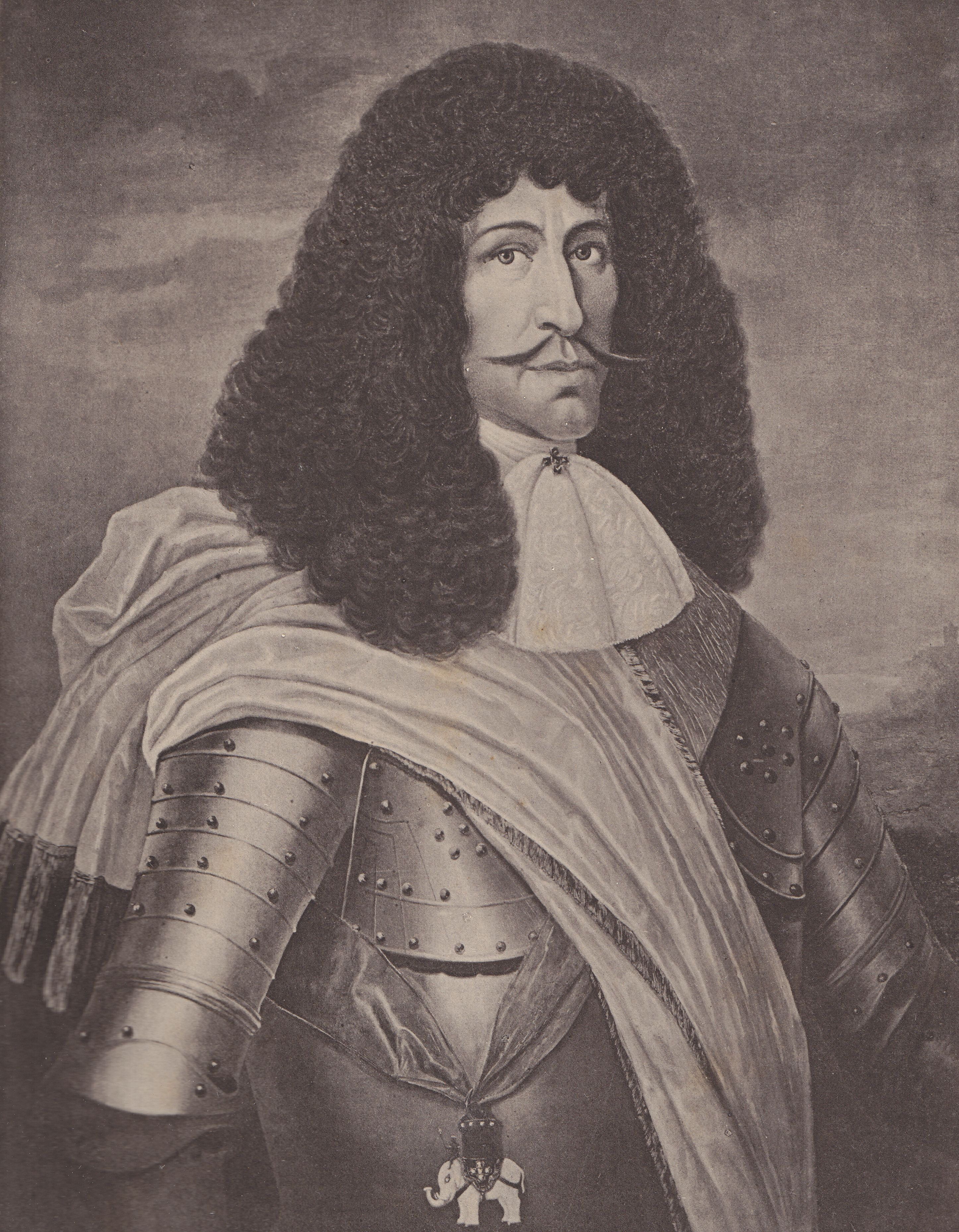 General-Feldmarschall Ernst Albrecht von Eberstein, 1605-1676 Fought in the Thirty Years War, received Order of the Elephant from Denmark This picture came from a book that was gifted to William Henry Baron von Eberstein in the 1880s. The book is full of pictures and some genealogical information about the von Eberstein family. It is written in the German language. Note the 'order of the elephant' medal hanging from his neck.